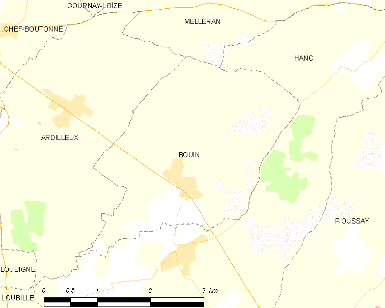 Map of French municipality Bouin